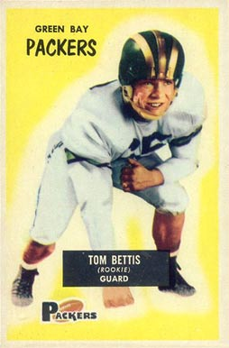 American football player Tom Bettis on a 1955 Bowman card.